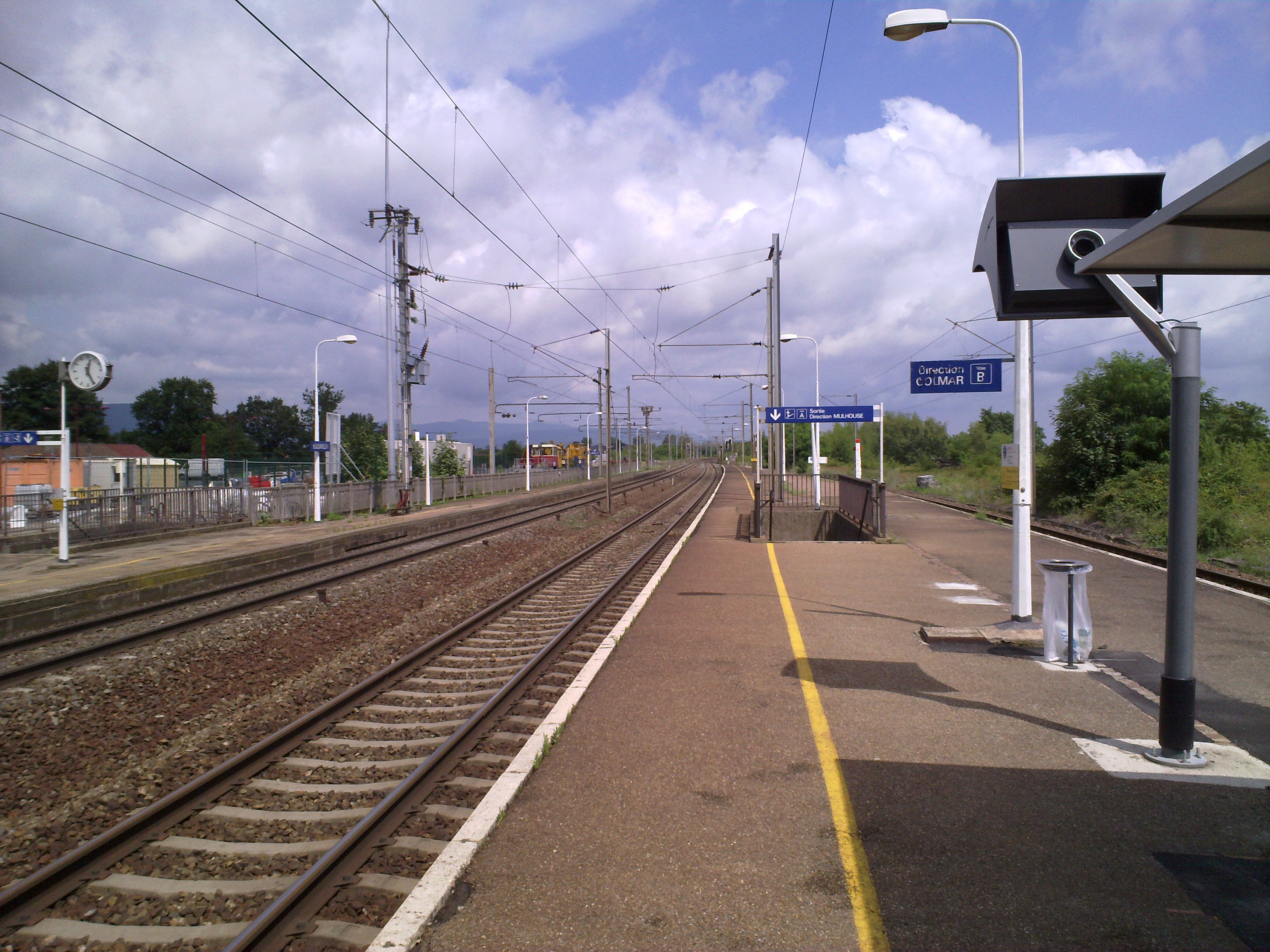 View from platform toward Strasbourg, at Bollwiller SNCF railway station, on the Strasbourg-Ville - Saint-Louis (Bâle) railway line.